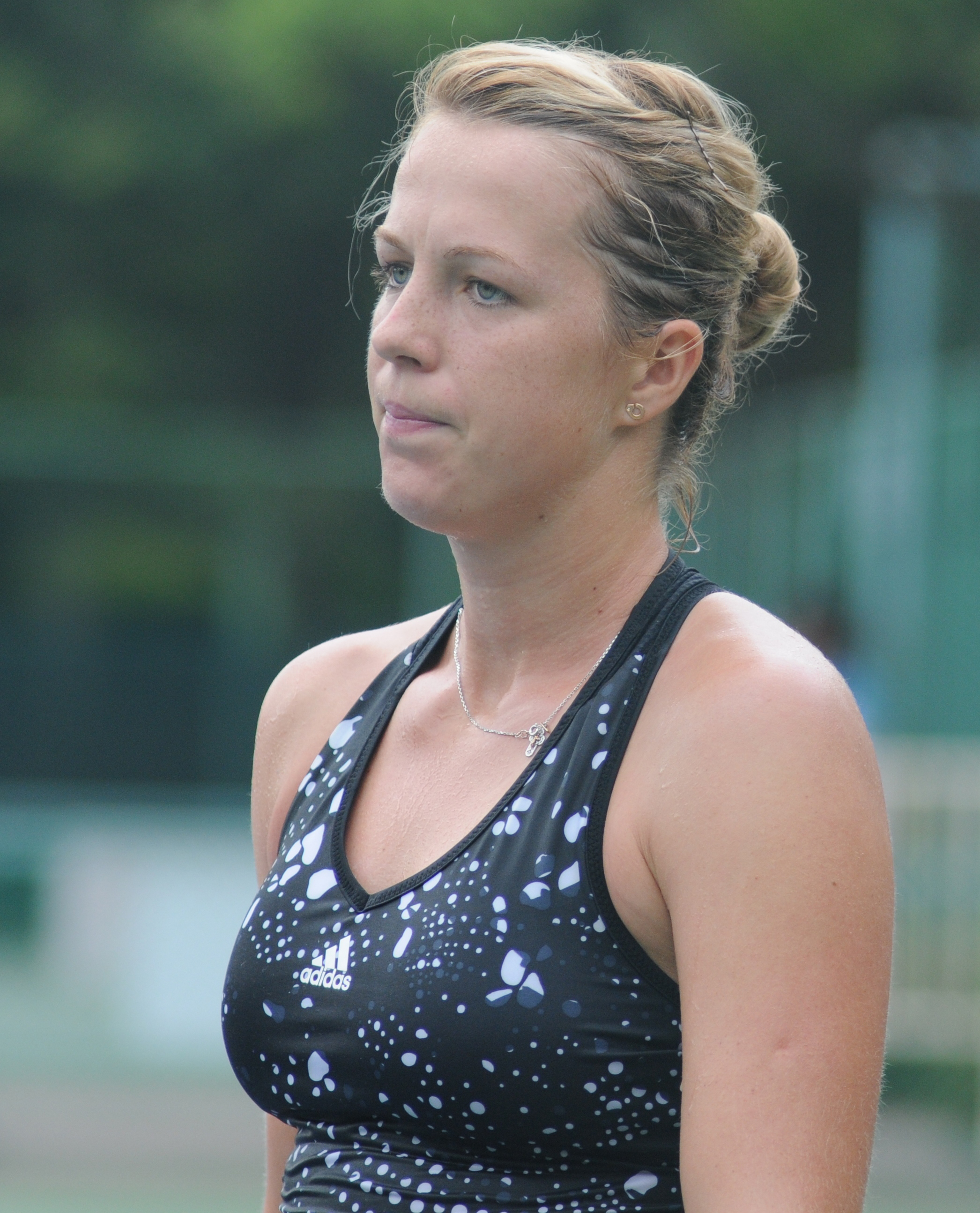 Anastasia Pavlyuchenkova at the 2014 Toray Pan Pacific Open